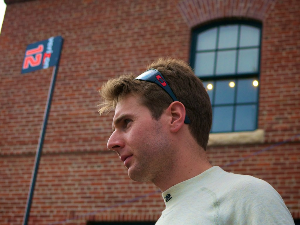 Will Power, winner of the Baltimore Grand Prix 2011, standing in pit lane in front of the Camden Yards Warehouse prior to the start. Will drove the #12 Verizon car to victory lane in the 2011 Baltimore Grand Prix.